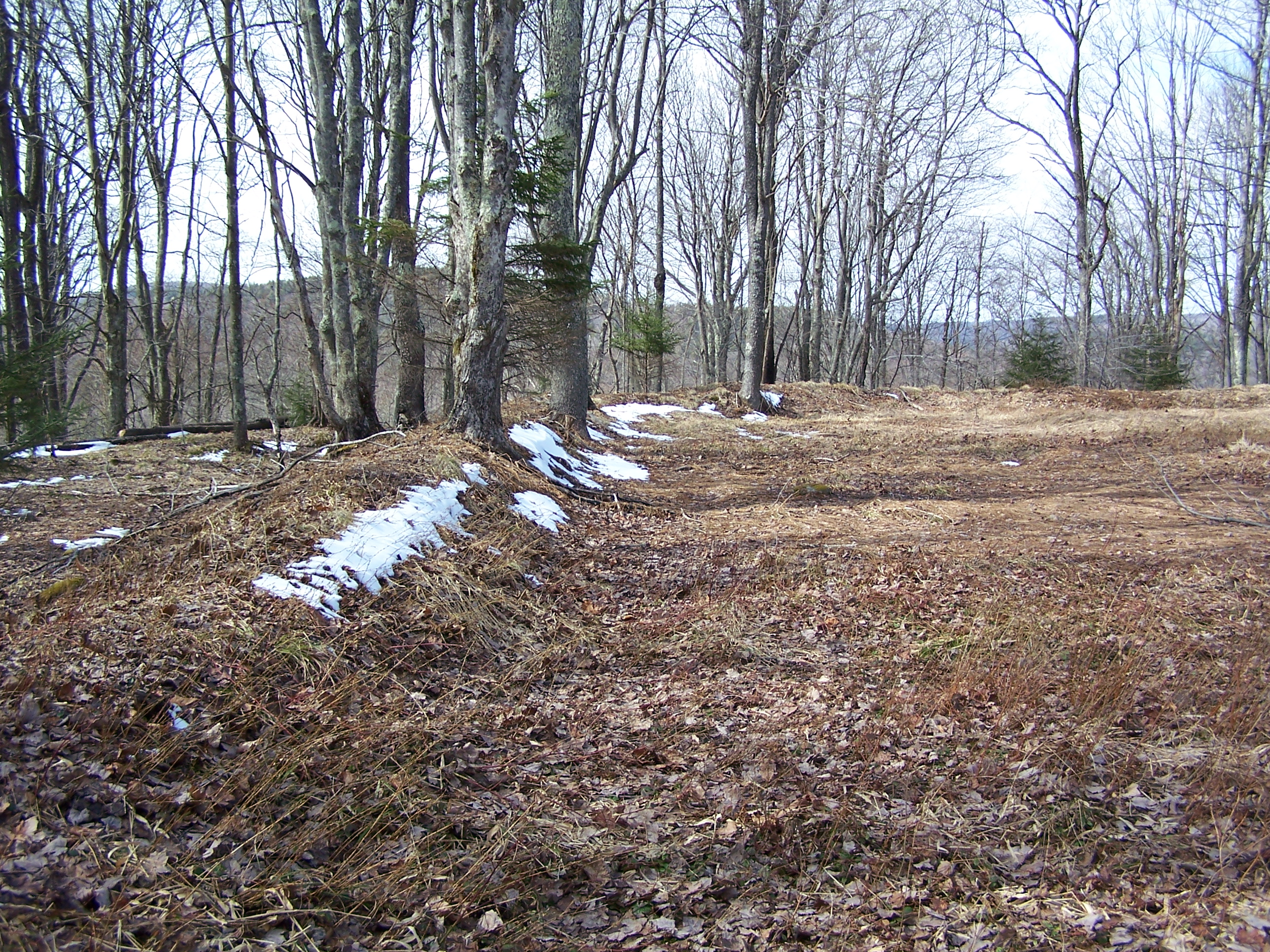 Earthworks at Cheat Summit Fort in Monongahela National Forest.